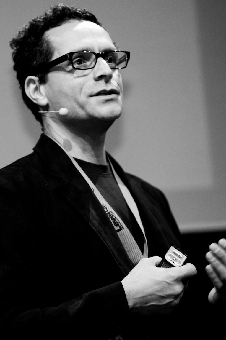 The Next Web Conference 2009